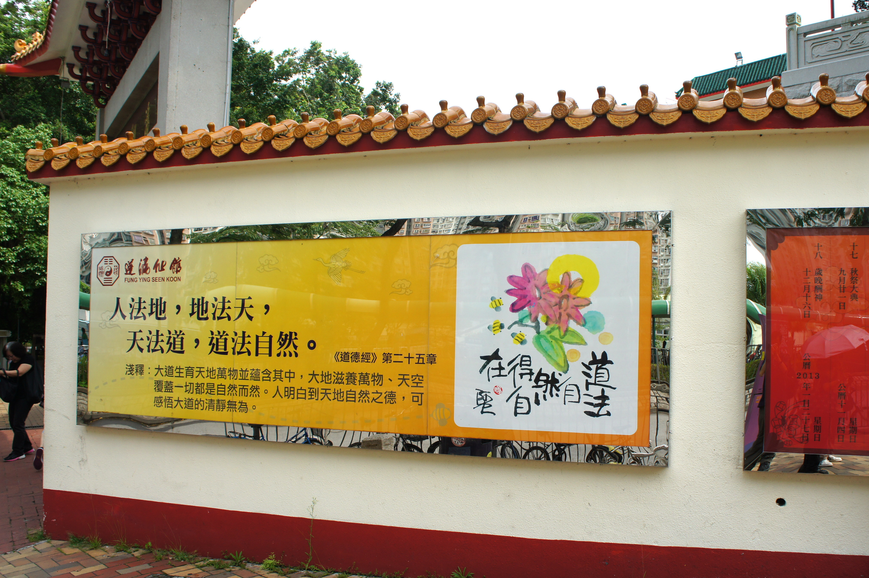 Fung Ying Sin Koon, near the main entrance, Fanling, New Territories, Hong Kong.